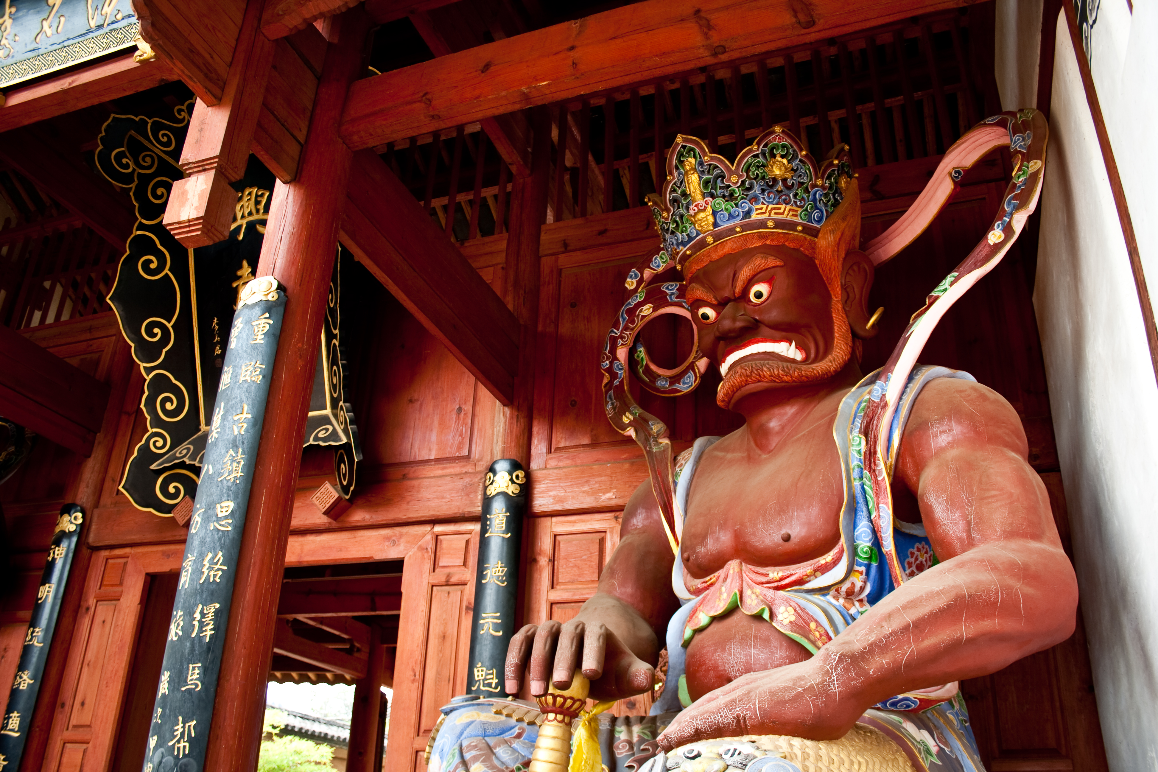 This is Xingjiao Temple in Shaxi town. It's a Ming dynasty Bai Buddhist temple.